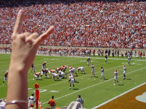 A fan displays the hook 'em horns sign at a University of Texas football home game.